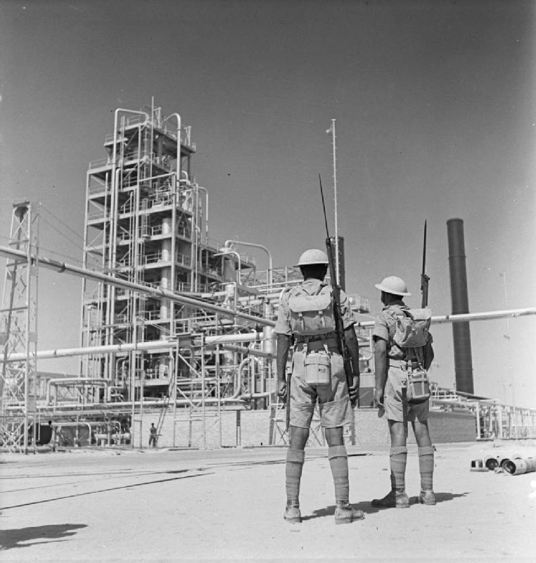 The British Army in the Middle East 1941 Indian riflemen guarding an oil refinery on the island of Aradian in Iran, 4 September 1941.